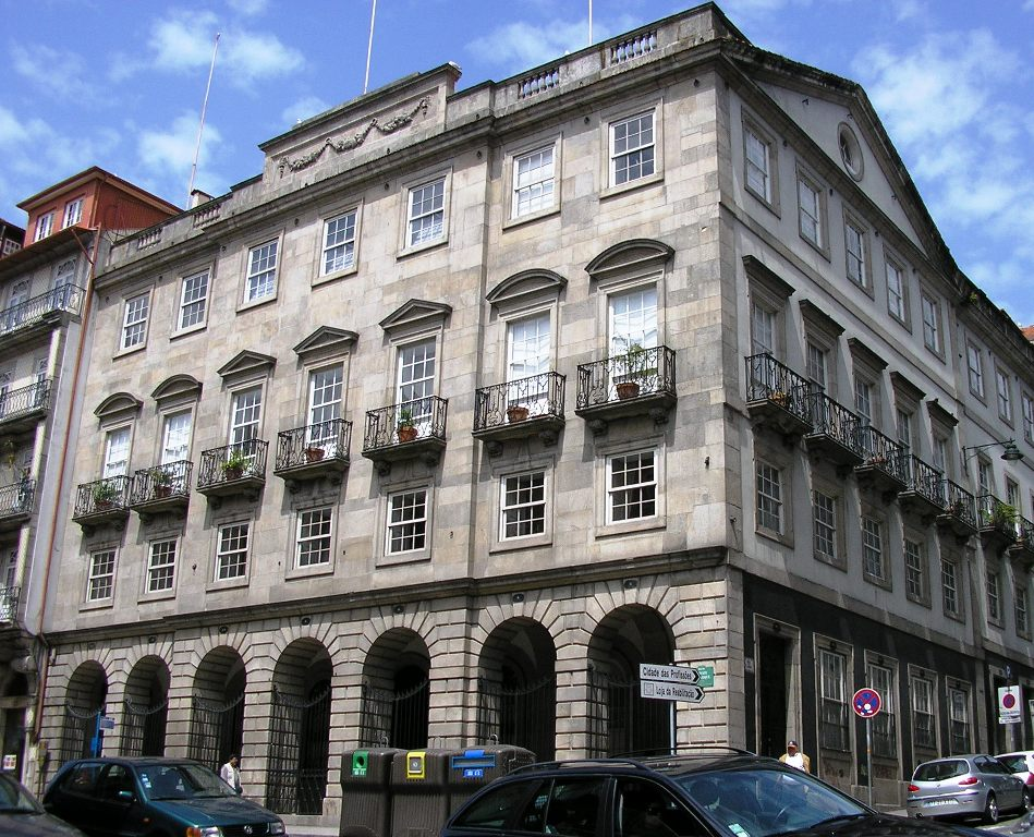 "Feitoria Inglesa" (English Factory) in Porto, Portugal